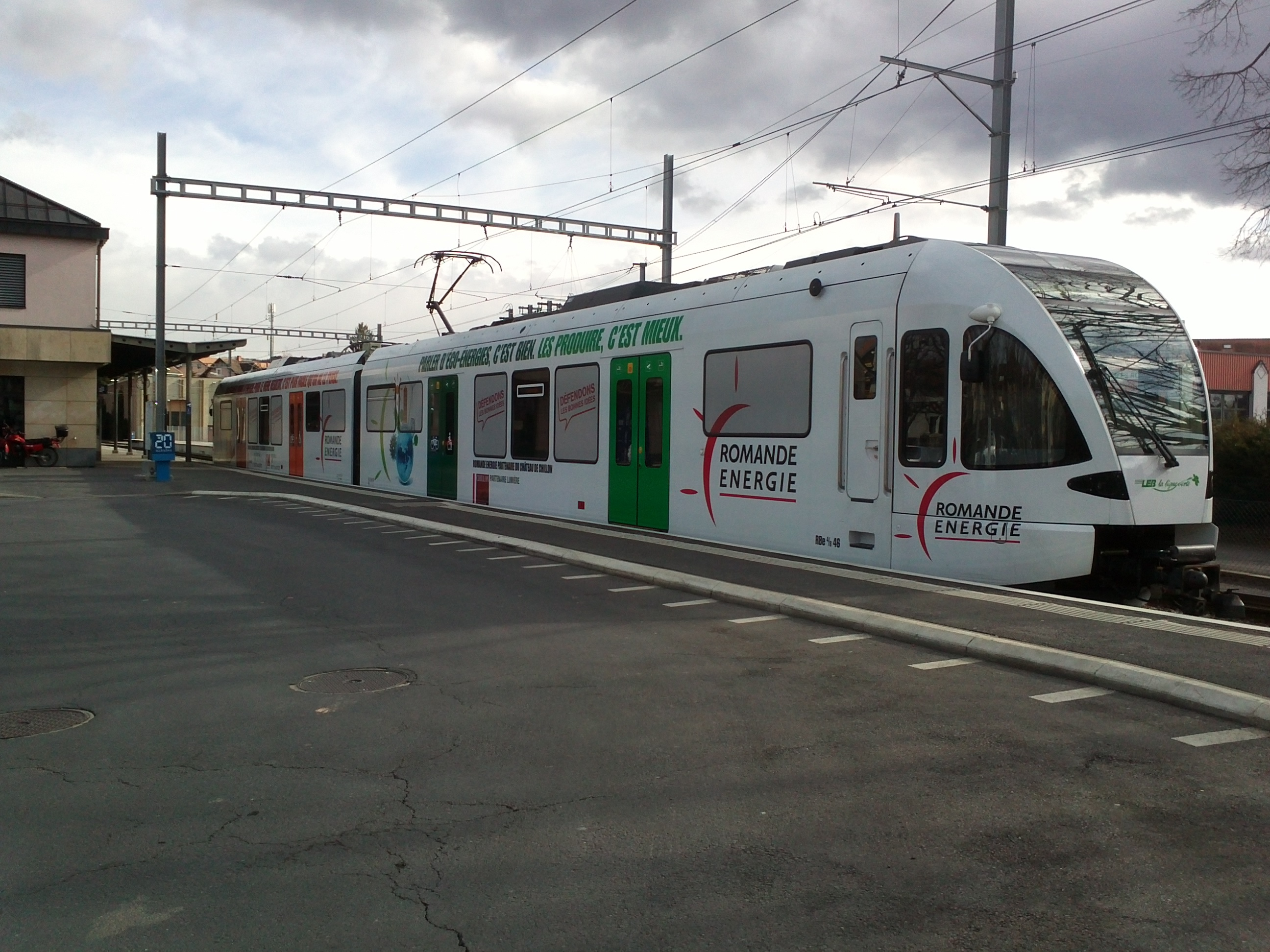 RBe 4/8 46 at the railway station of Échallens with advert for the Romande énergie.